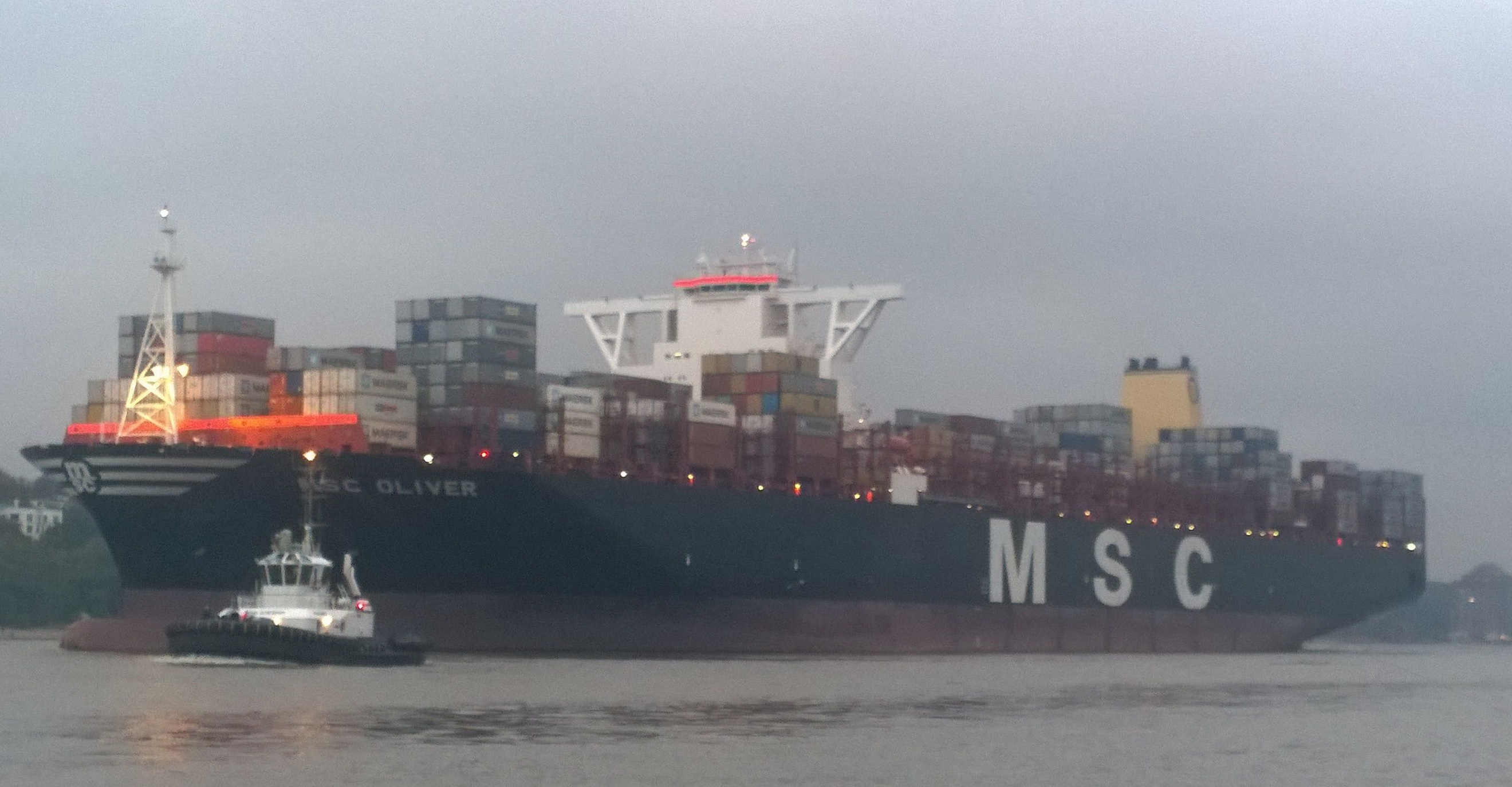 Container ship MSC Oliver in the light fog on the river Elbe down in Oktober 2016